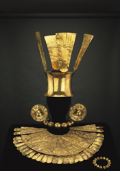 Ceremonial gold headdress. Larco Museum, Lima, Peru.